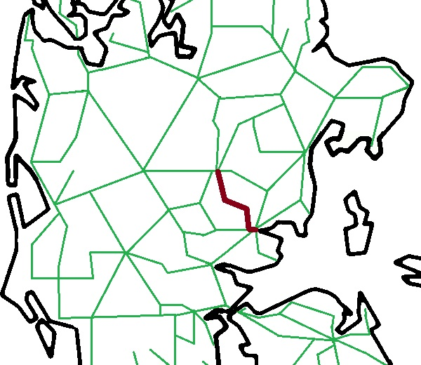 Map of railways in Middle Jutland in Denmark with the private railway Horsens-Bryrup-Silkeborg Jernbane in brown.